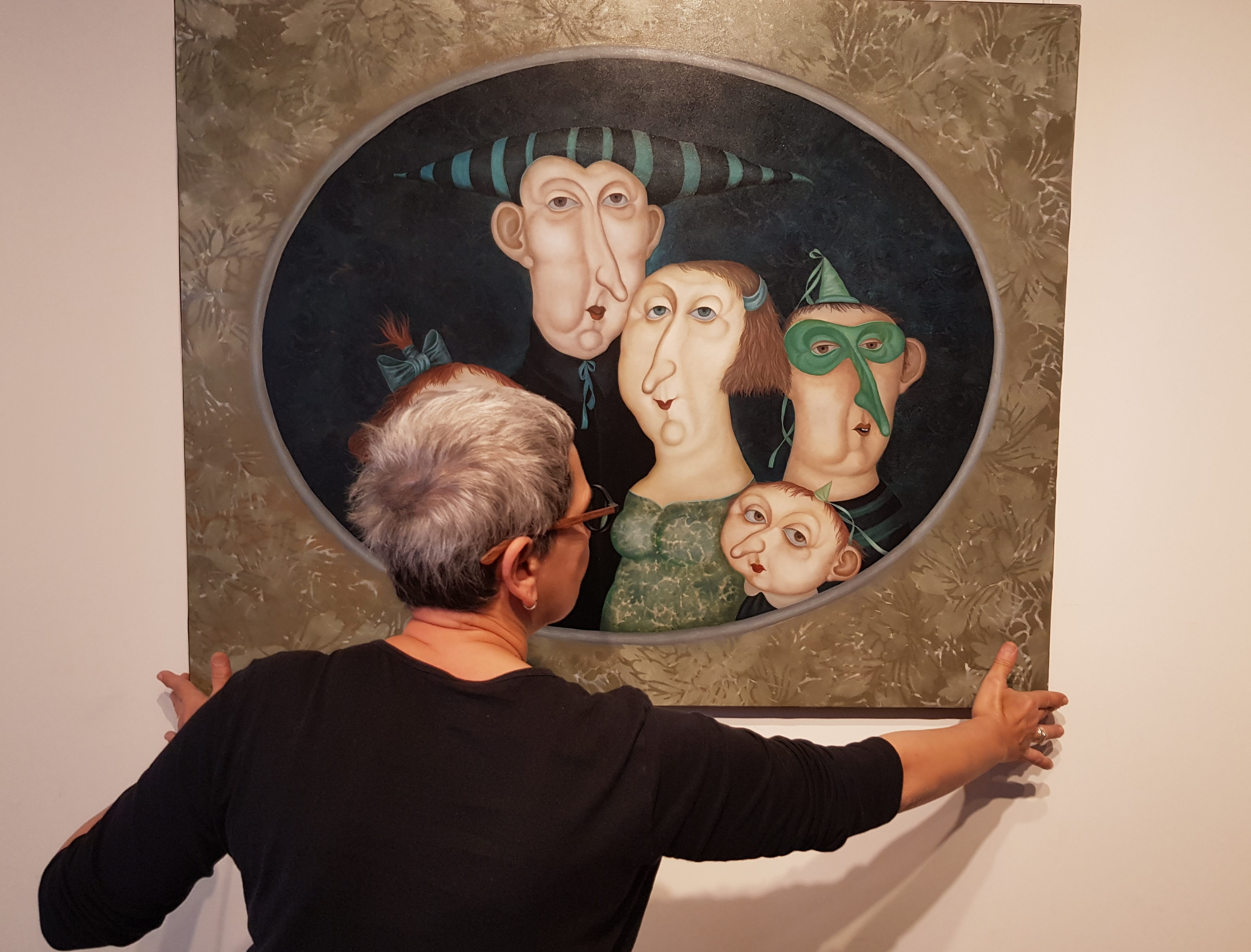 Evgenia Saré